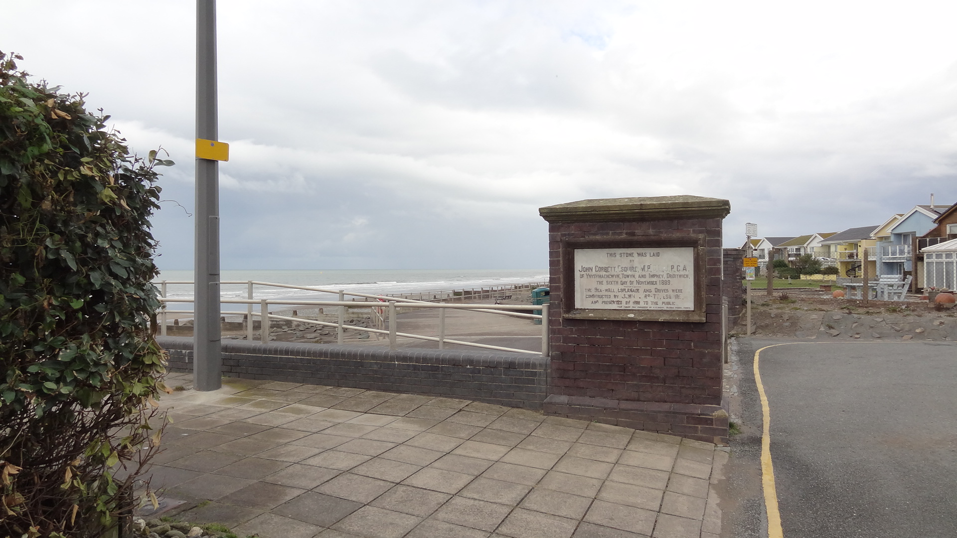 Promenade and memorial stone, Tywyn